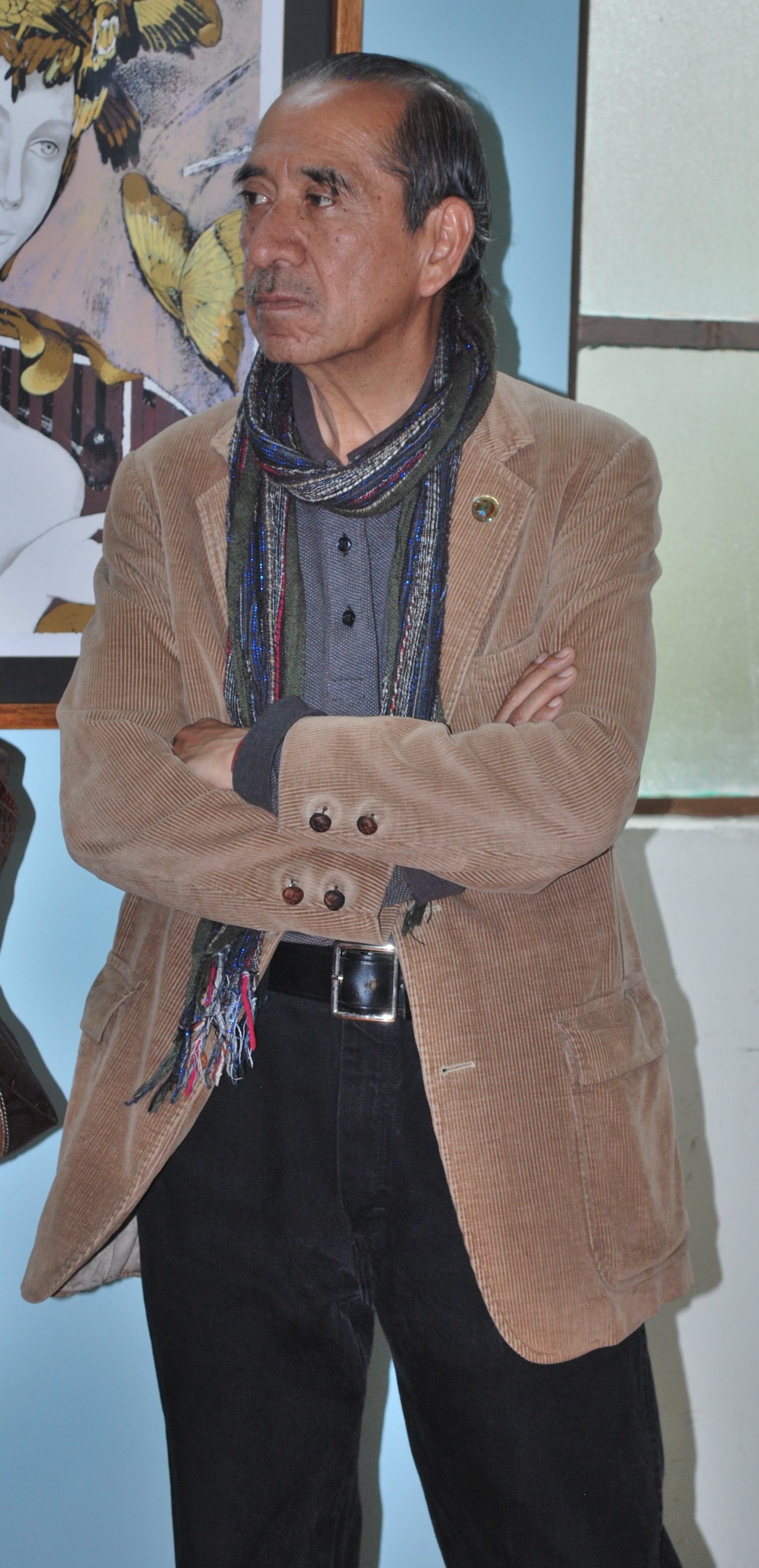 Celso Zubire at the closing of the Origen de un Acervo exhibit at the Centro de Educación Continua Unidad Allende IPN